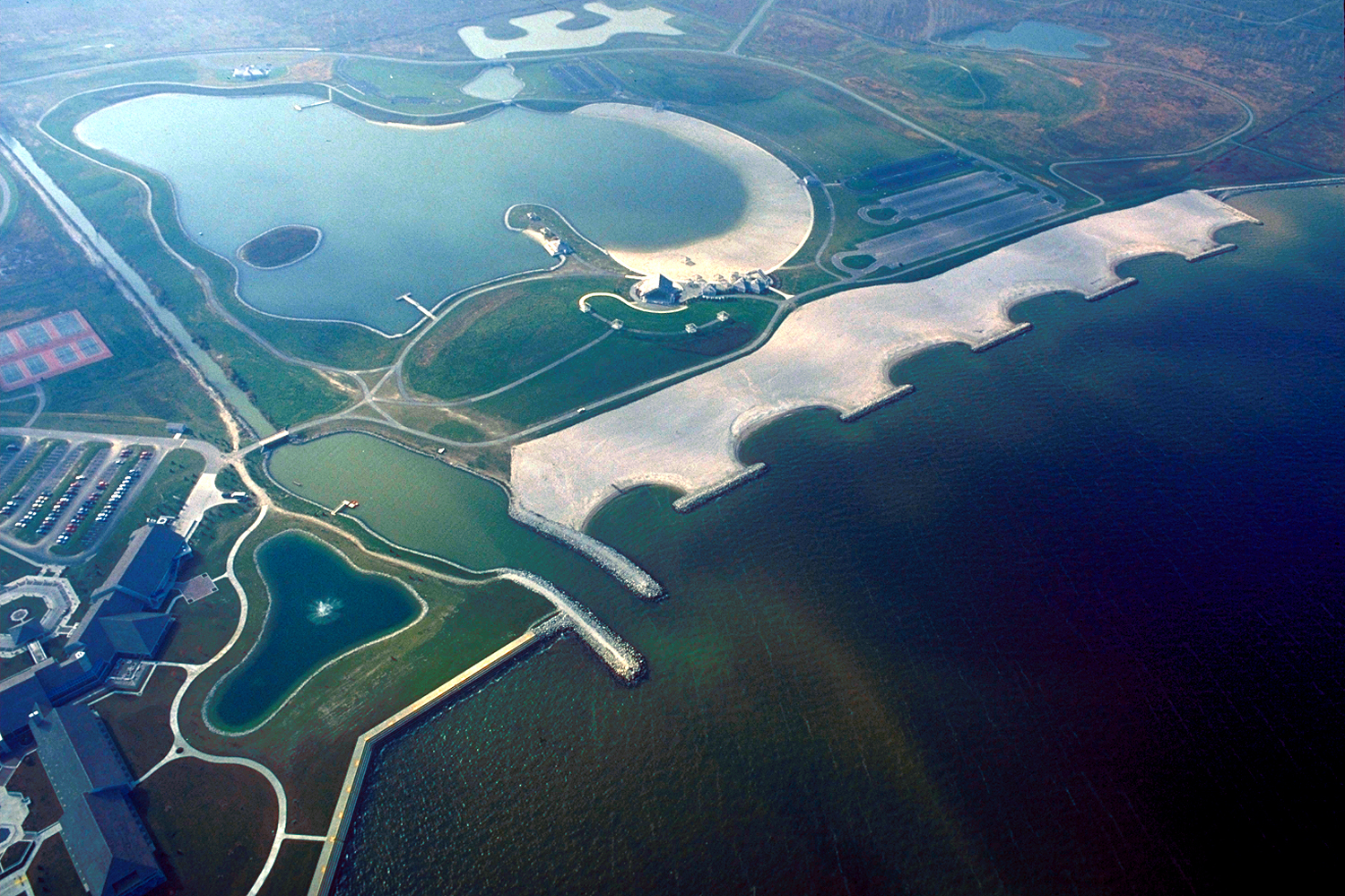 Aerial view of Maumee Bay State Park on Lake Erie near Toledo, Ohio, USA. The U.S. Army Corps of Engineers built an artificial headland breakwaters and revetment wall at the park.